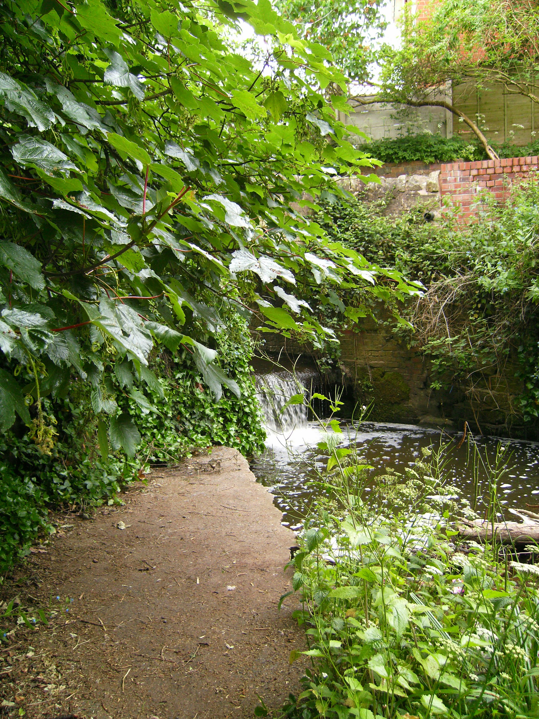 Wom Brook at Pool Dam, Wombourne, South Staffs, England. Site of a former water wheel.